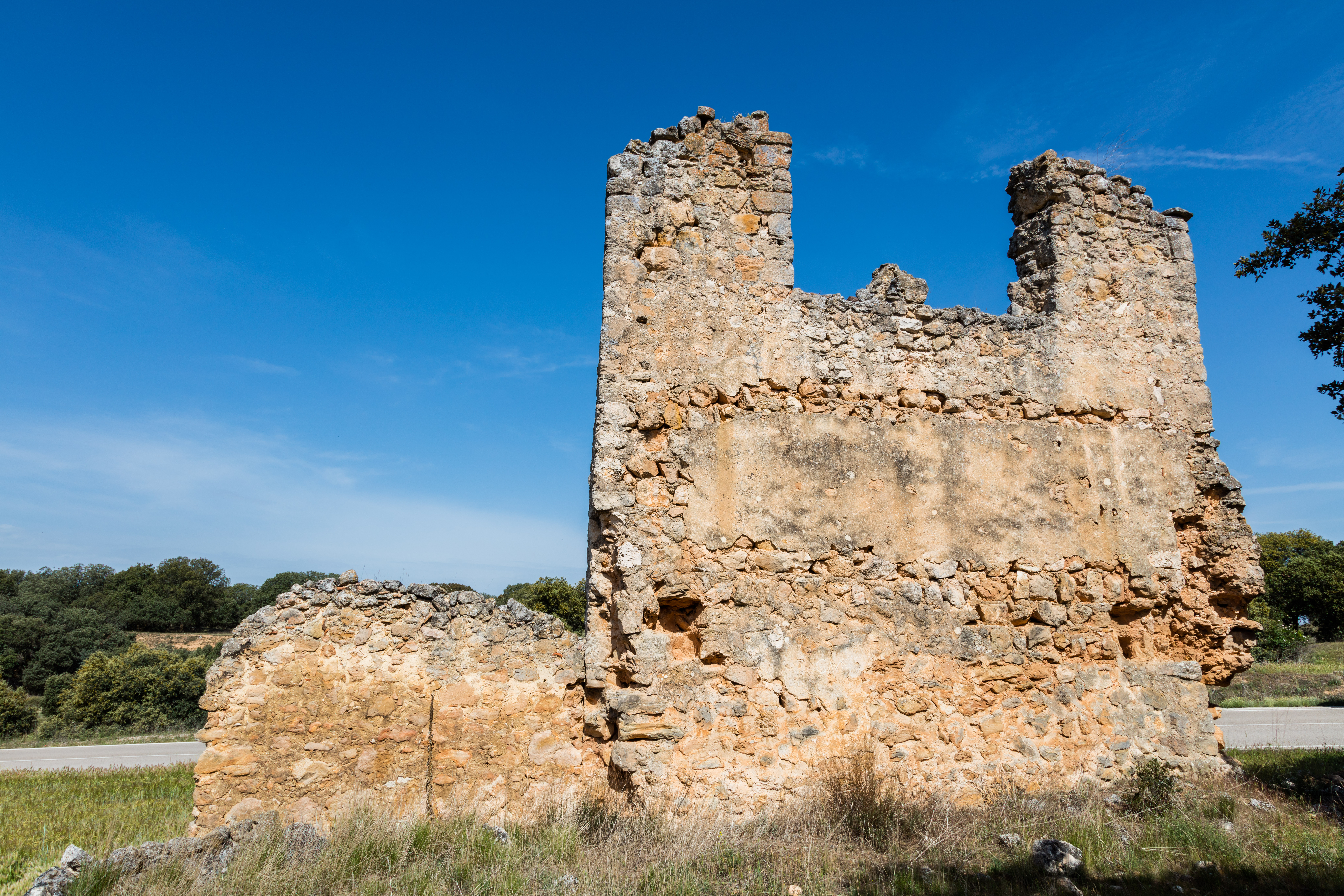 Hermitage of the Lady of Golbán, Atauta, Soria, Spain